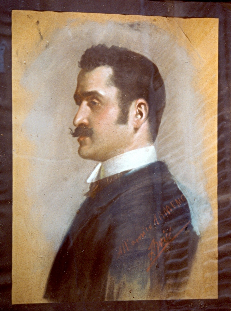 Armeno Armeni ritratto dal pittore serbo A. Katundric (1900 circa, tempera cm 80 x 60)